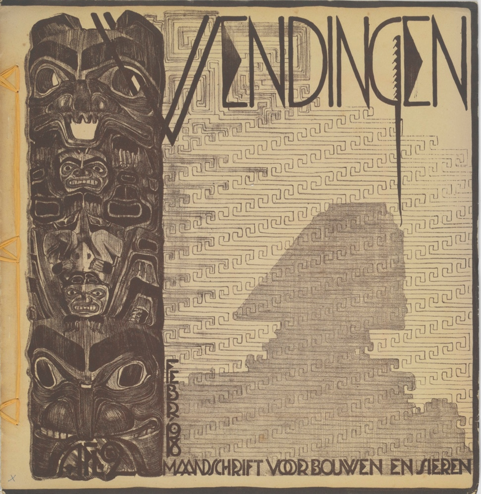 Cover of Dutch art magazine Wendingen, Febr. 1918